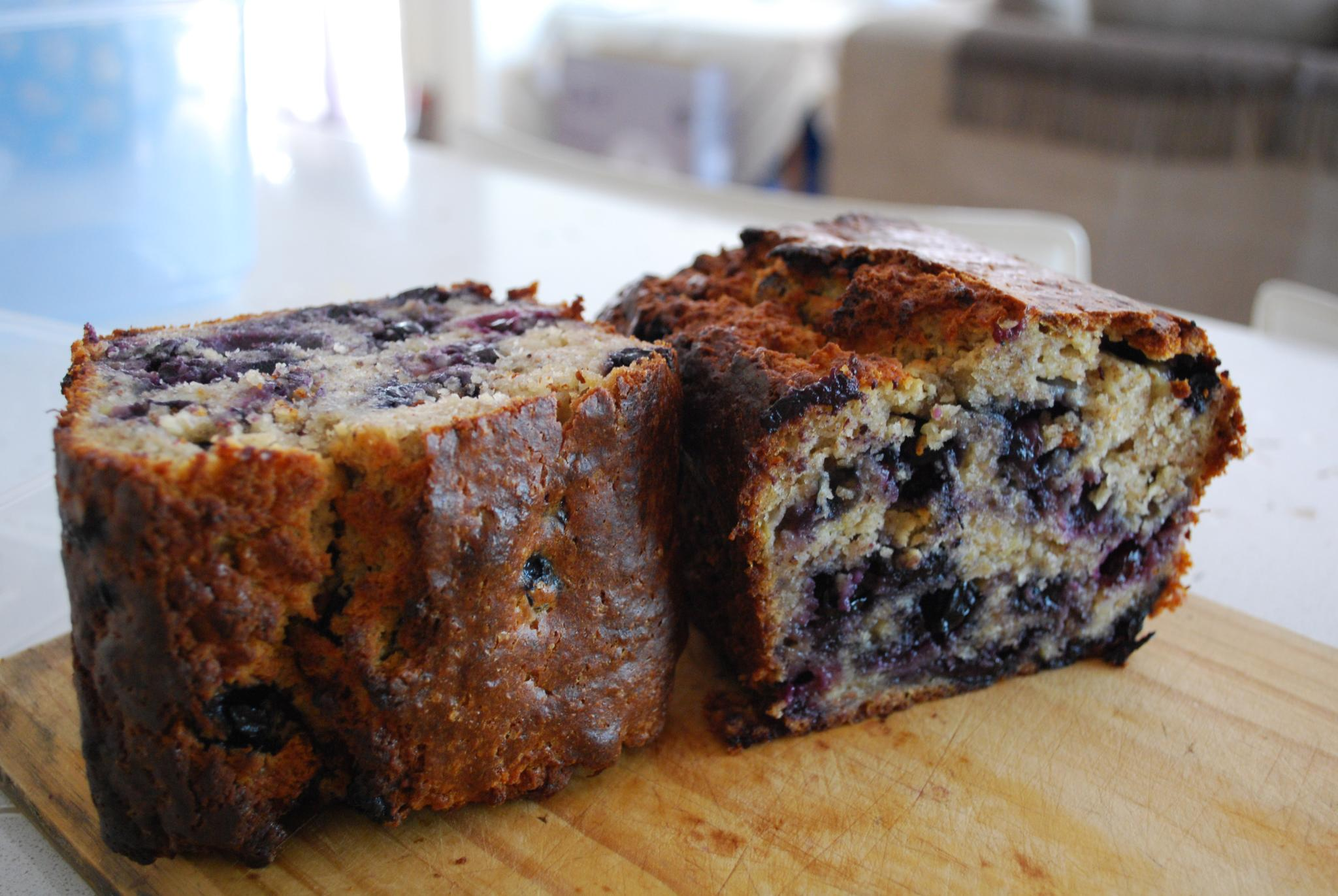 A perfect combination of banana and juicy blueberries! ... and some walnuts for crunch.